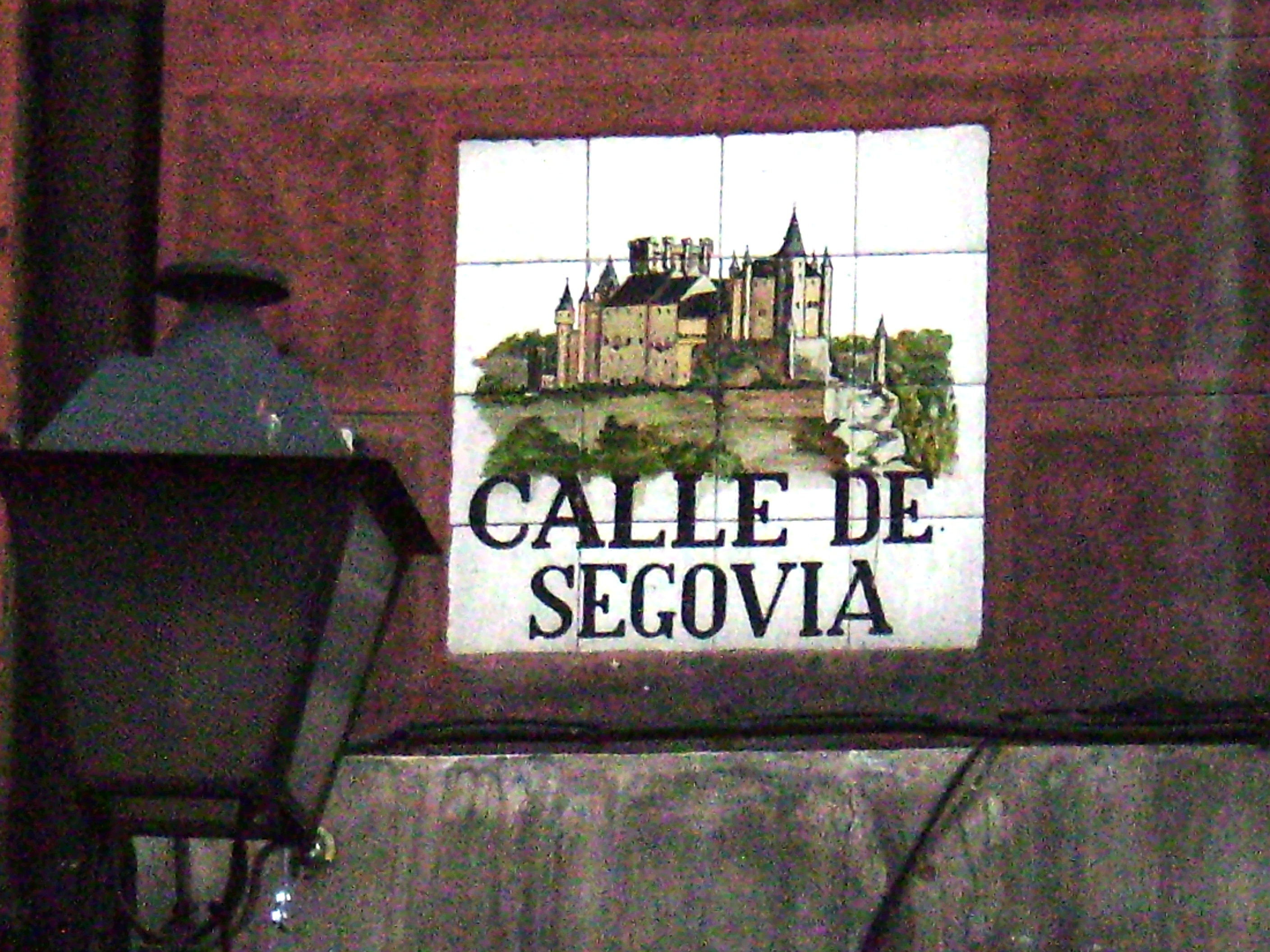 Segovia Street, Madrid (Spain)